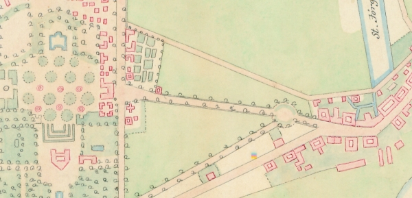 Frederiksberg Allé seen on a map detail from 1772. Frederiksberg Have to the left.